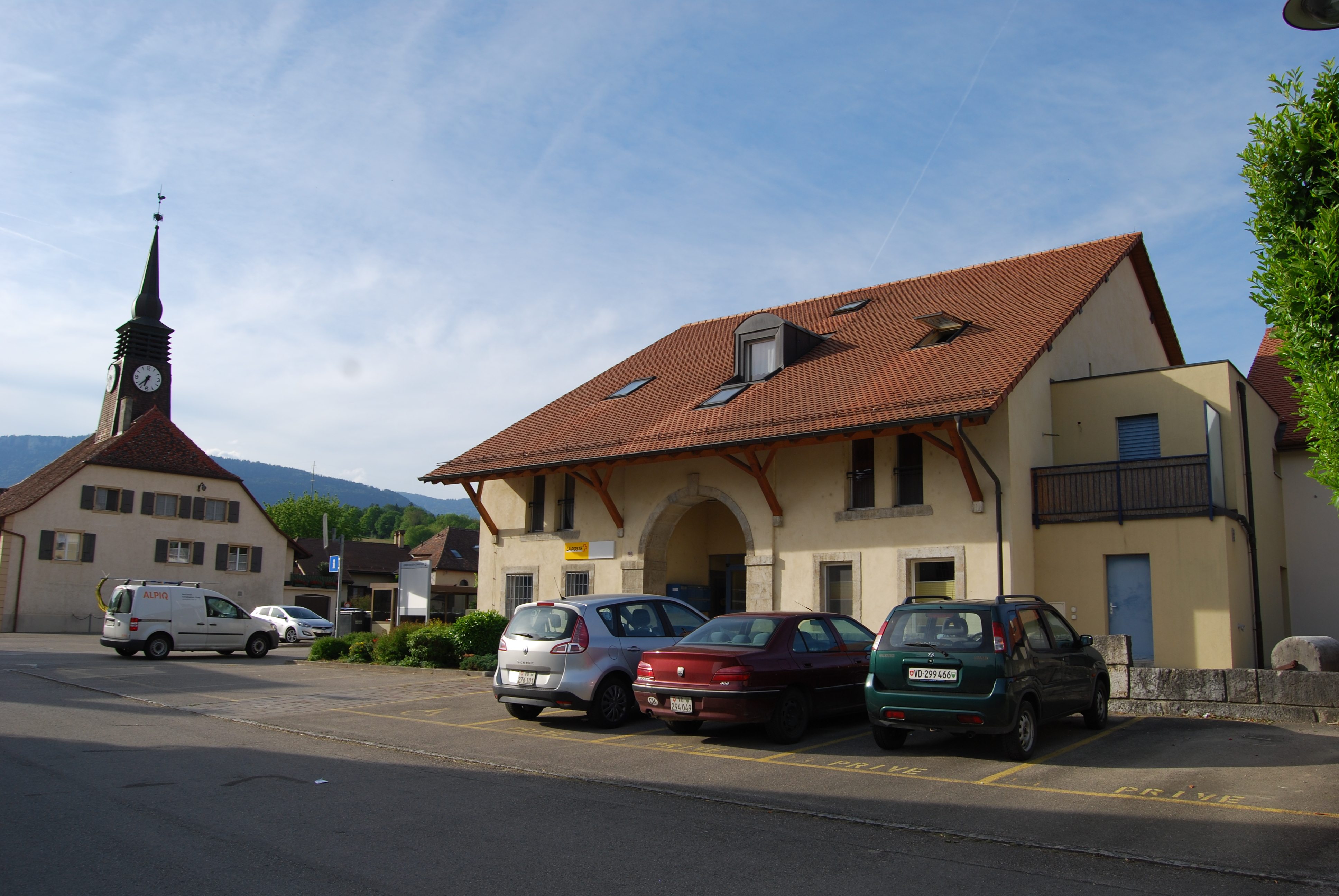 Mathod, canton of Vaud, SwitzerlandEsperanto: Mathod, Kantono Vaŭdo, Svislando